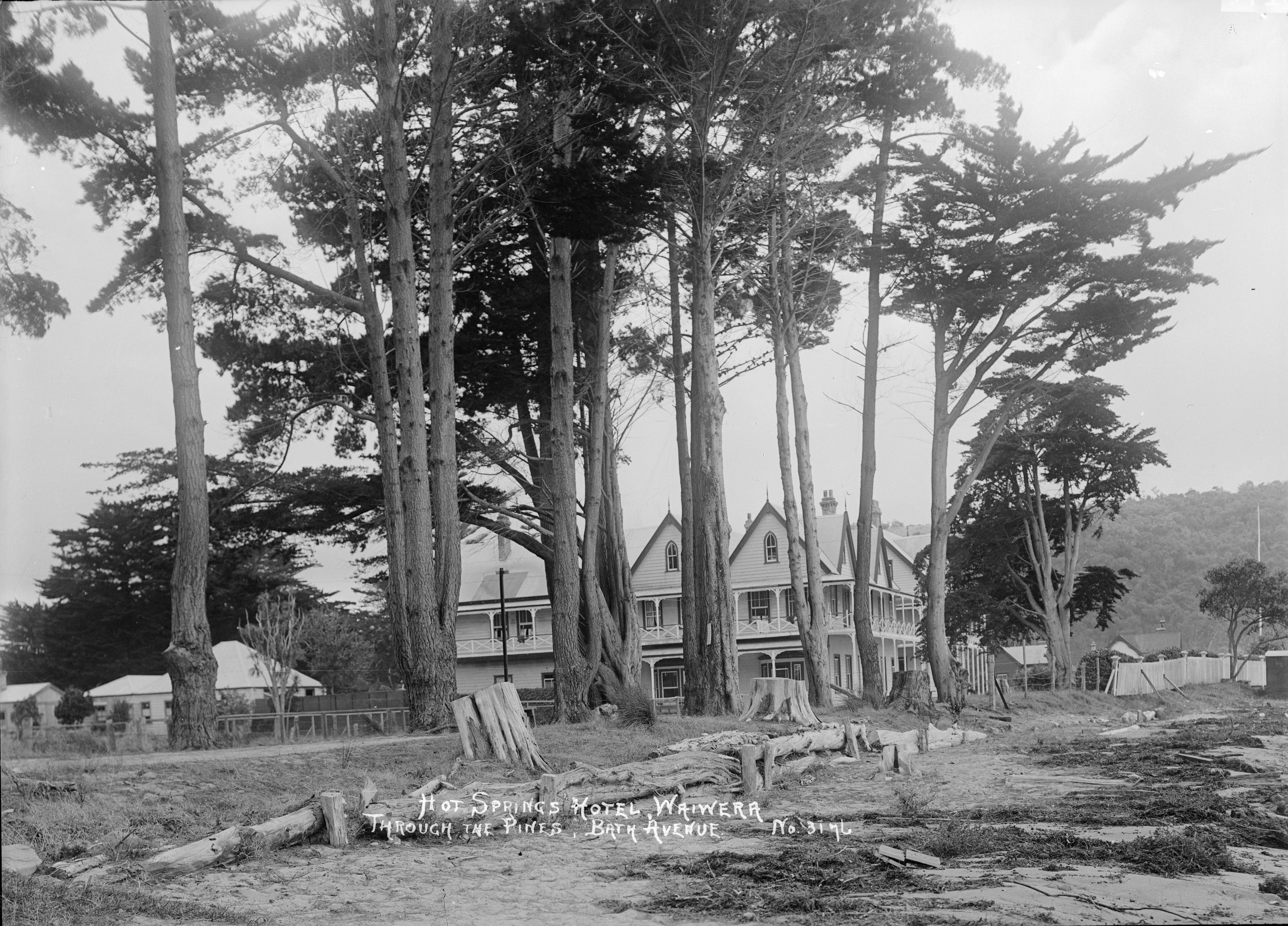 View of the Hot Springs Hotel situated near the beach at Waiwera. Taken looking through the pines on Bath Avenue. Photograph taken by William A Price in early 1900s. Inscriptions: Inscribed - Photographer's title on negative -bottom centre: Hot Springs Hotel, Waiwera. Through the pines, Bath Avenue. No 3176 . William Archer Price lived and practised in Queen Street, Northcote, 1909-1910. Source: New Zealand Post Office directories. Quantity: 1 b&w original negative(s). Physical Description: Dry plate glass negative 4.5 x 6.5 inches Hot Springs Hotel, Waiwera. Price, William Archer, 1866-1948 :Collection of post card negatives. Ref: 1/2-000640-G. Alexander Turnbull Library, Wellington, New Zealand.